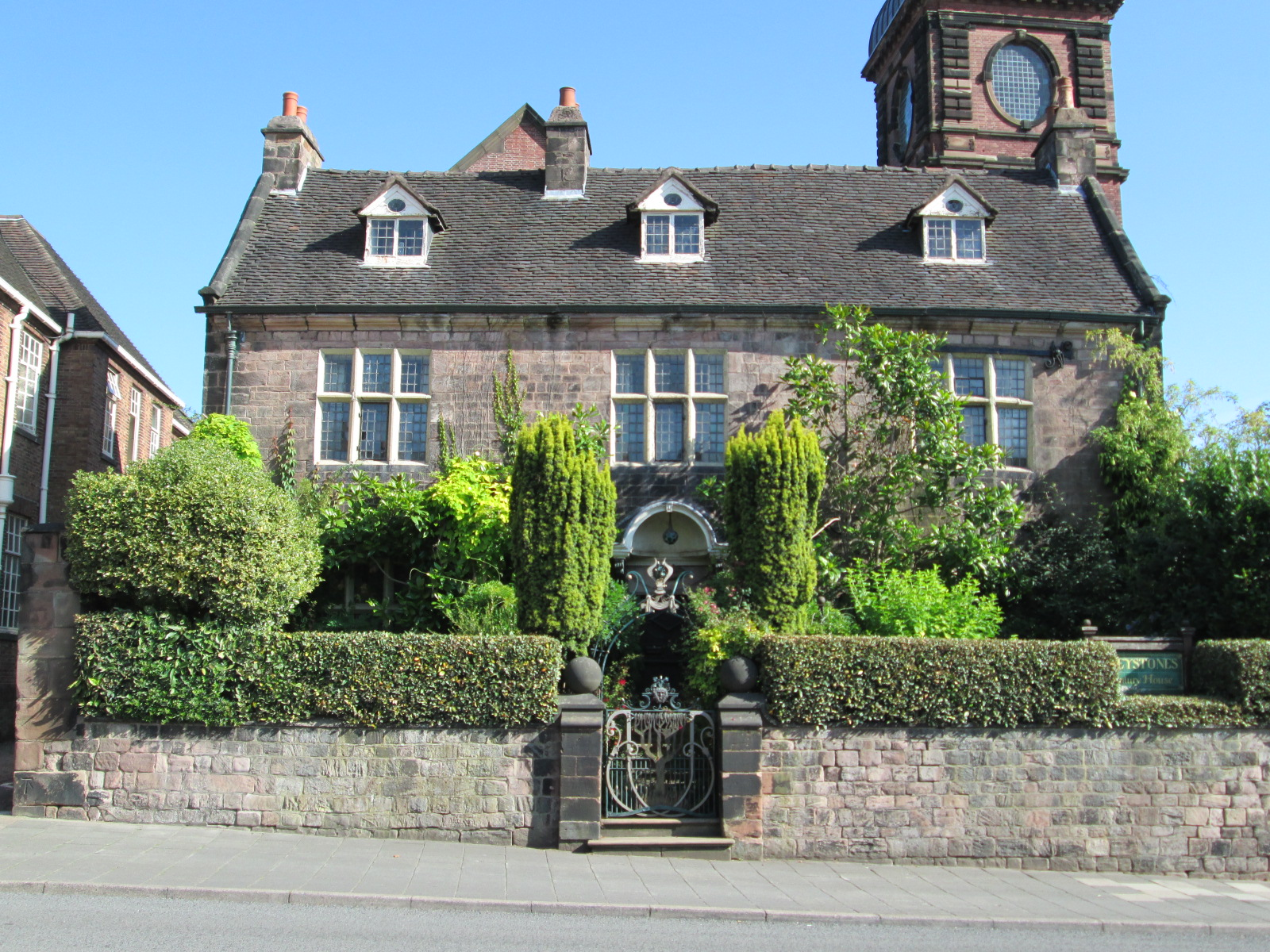 !7th-century building next to the Nicholson institute (of which the tower is visible behind), Stockwell Street, Leek.